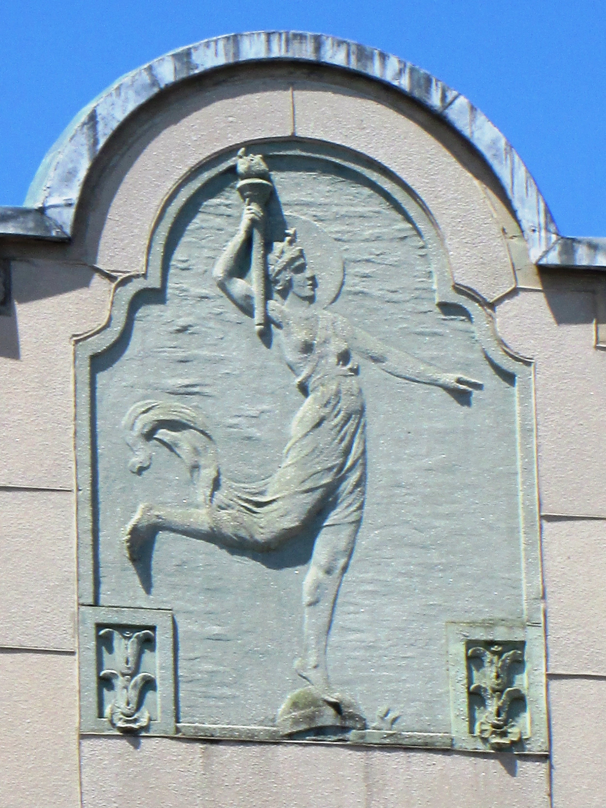 The Brown and Roberts Hardware store at 182 Main Street, Brattleboro, Vermont was built in 1929 as a Montgomery Ward store. The medallion at the top -- "Progress Lighting the Way for Commerce" -- was designed by J. Massey Rhind and appeared on many of the chain's stores. The Montgomery Ward store closed in 1975. The building is located within the Battleboro owntown Historic District. (Source: "The Visitor's Guide to Brattleboro and the Vibrant Villages of Southern Vermont" (2010))